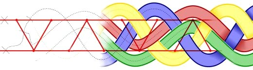 My method to build knots in the Celtic or Arabic manner is explained on this picture. The knot is associated with a planar graph. On each middle edge, place a crossing. Connect this bits to one another following a maze method. Decide the upper/lower threads according to a guide. Inflate each thread to fill up its space.